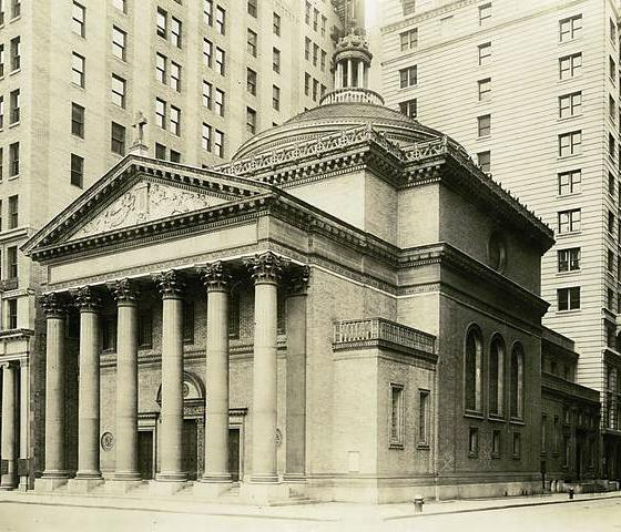 Madison Square Presbyterian Church, designed by Stanford White, built 1906; the second chruch by this name. Image Title: Madison Square Presbyterian Church, New York Creator: Dreyer, Louis H. -- Photographer Item/Page/Plate: 13.778 Source: "The Pageant of America" Collection / v.13 - The American spirit in architecture / (Published photographs) Source Description: Approx. 8,000 photographs Location: Stephen A. Schwarzman Building / Photography Collection, Miriam and Ira D. Wallach Division of Art, Prints and Photographs Digital ID: 98974 Record ID: 133315 Digital Item Published: 8-20-2004; updated 6-25-2010